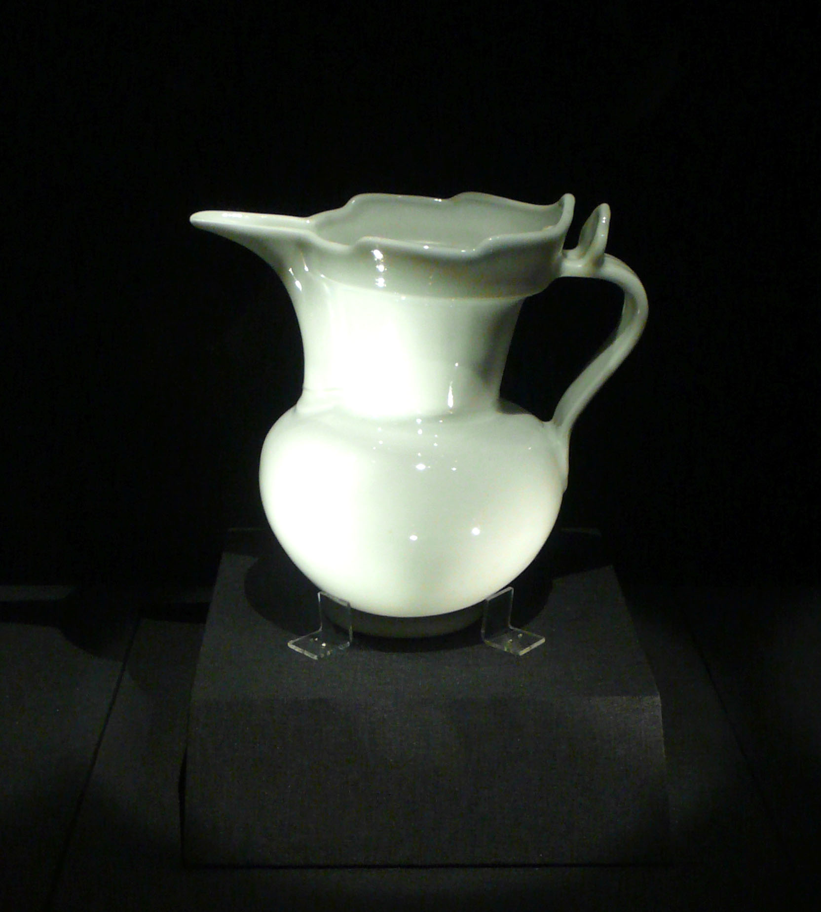 Palace Museum, Beijing. Monk's cap jug with white glaze Yongle Reign, Ming Dynasty, 1403-1424 A.D.